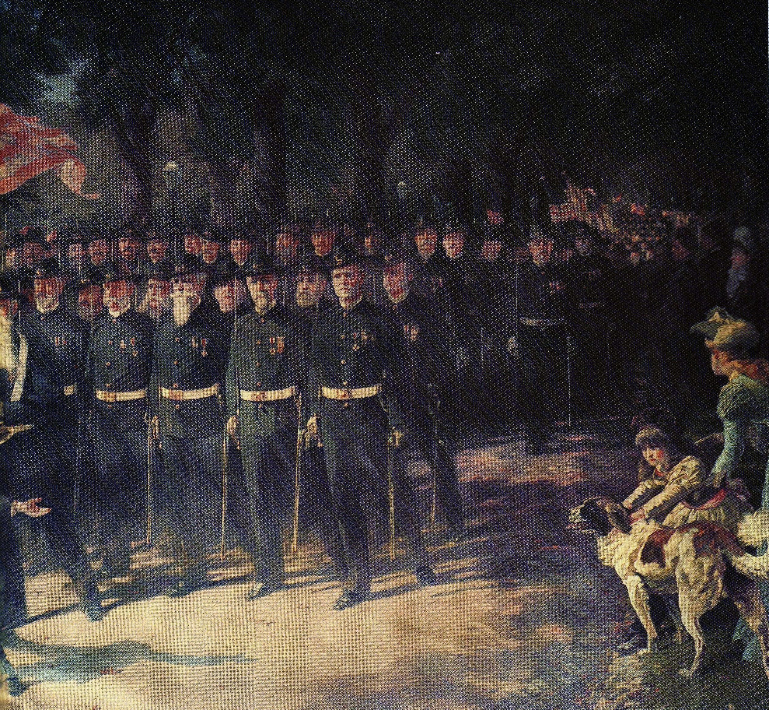 Parade of veterans of the U.S. Civil War during Decoration Day. General William Tecumseh Sherman is in the front row at the far right.